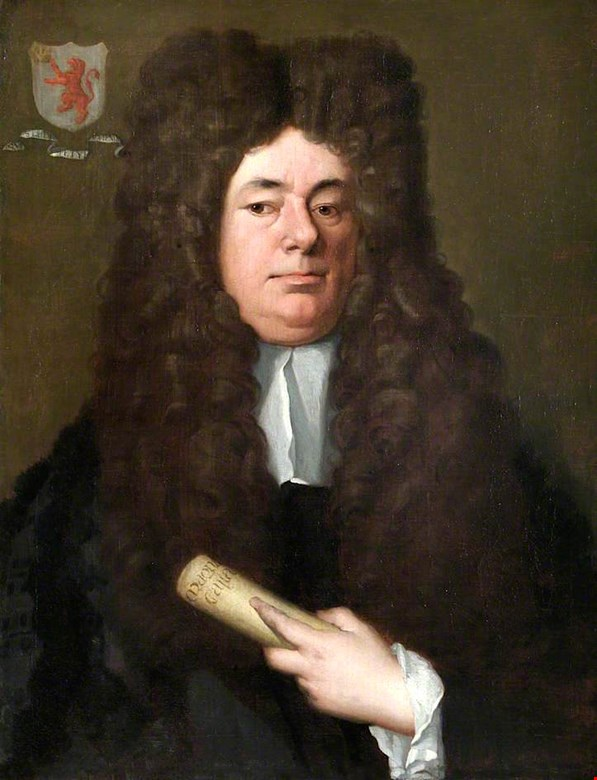 A portrait of William Petyt (1640/1641 – 3 October 1707), an English barrister, writer, and Whig political propagandist. He is depicted holding a copy of Magna Carta.